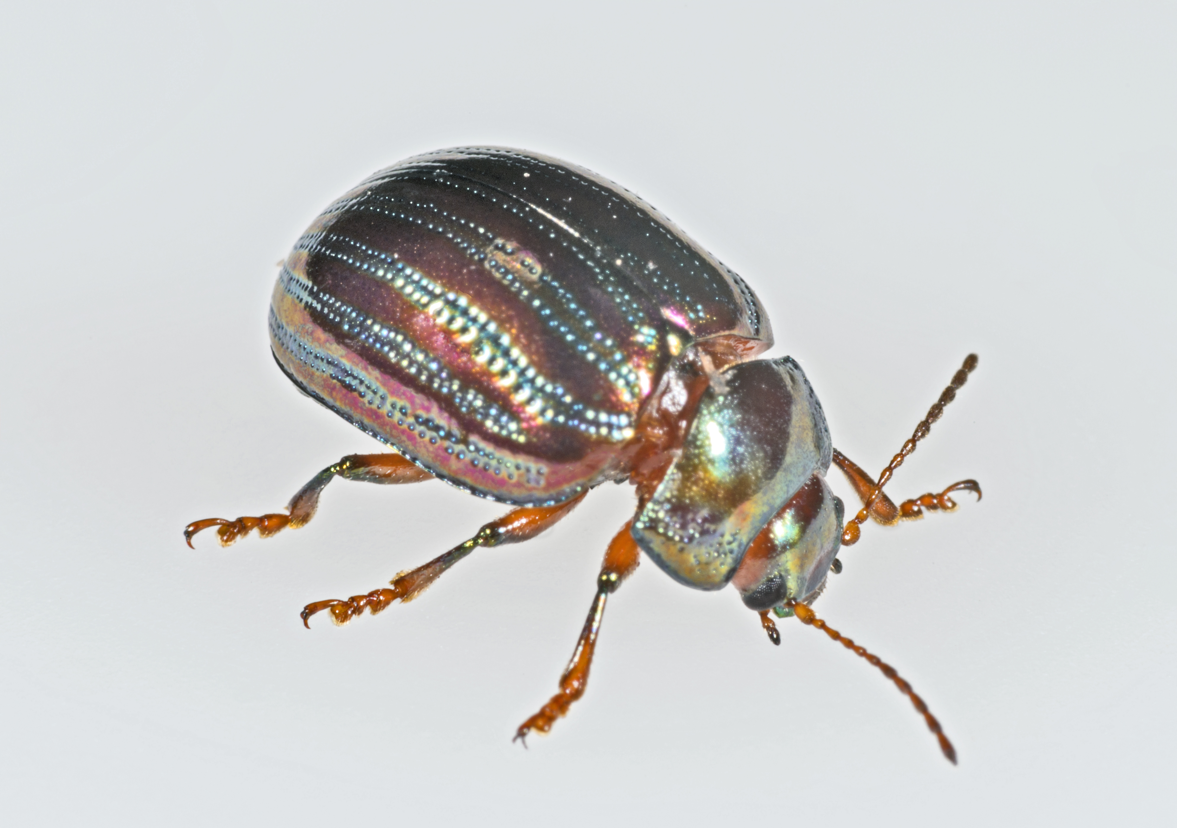 Rosemary Beetle. Living animal image made on a frosted glass plate on site.